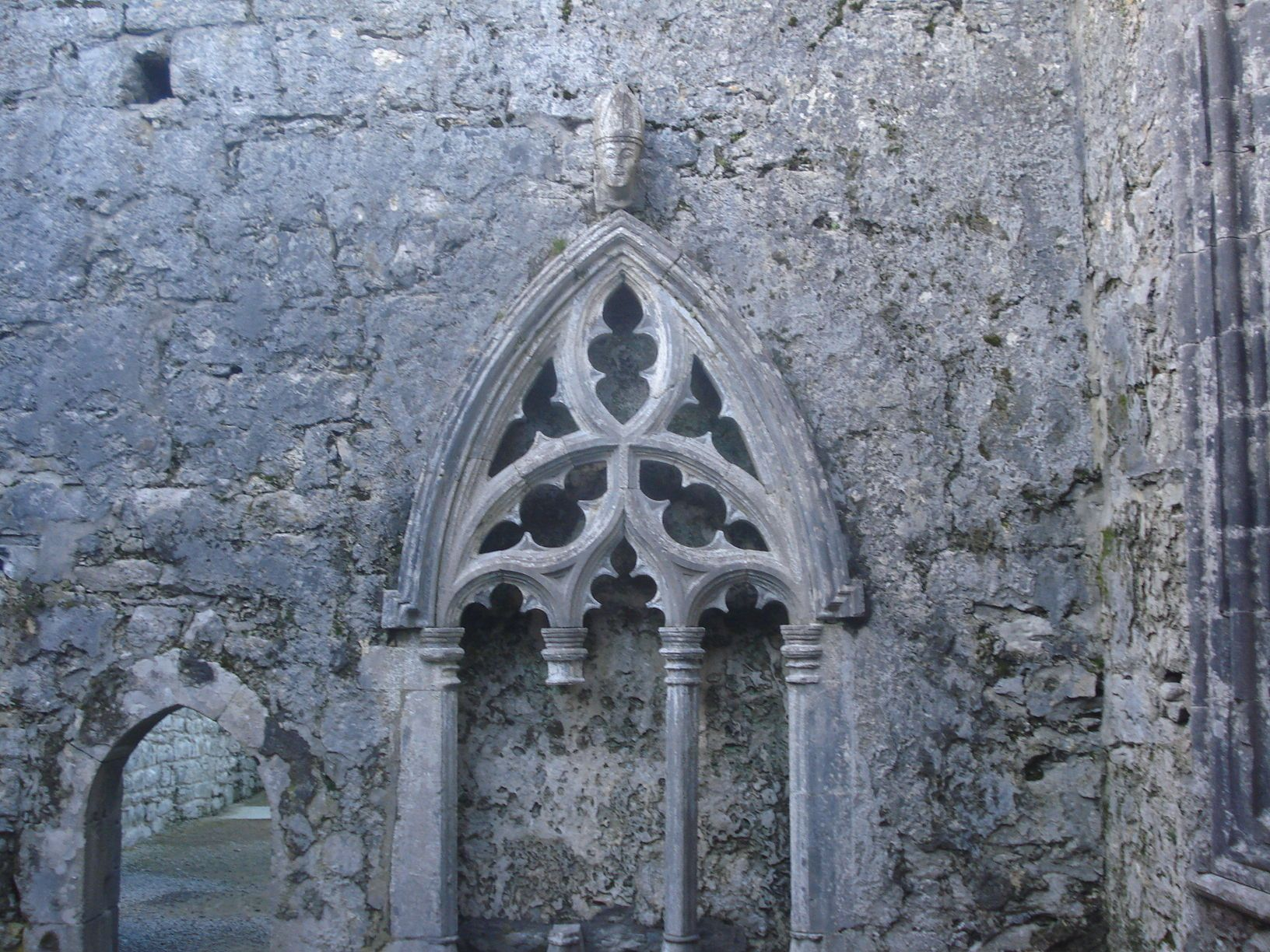 Detail of Kilfenora Abbey, Kilfenora, Republic of Ireland